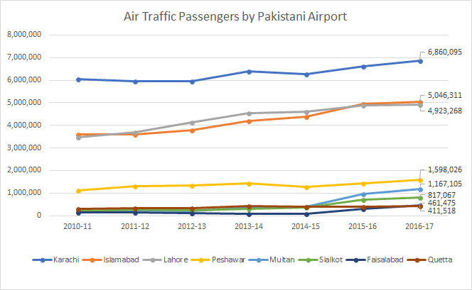 Air Traffic Passengers by Pakistani Airport